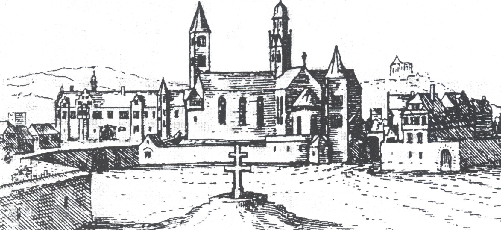 View of the monastery area in Hersfeld in year 1605